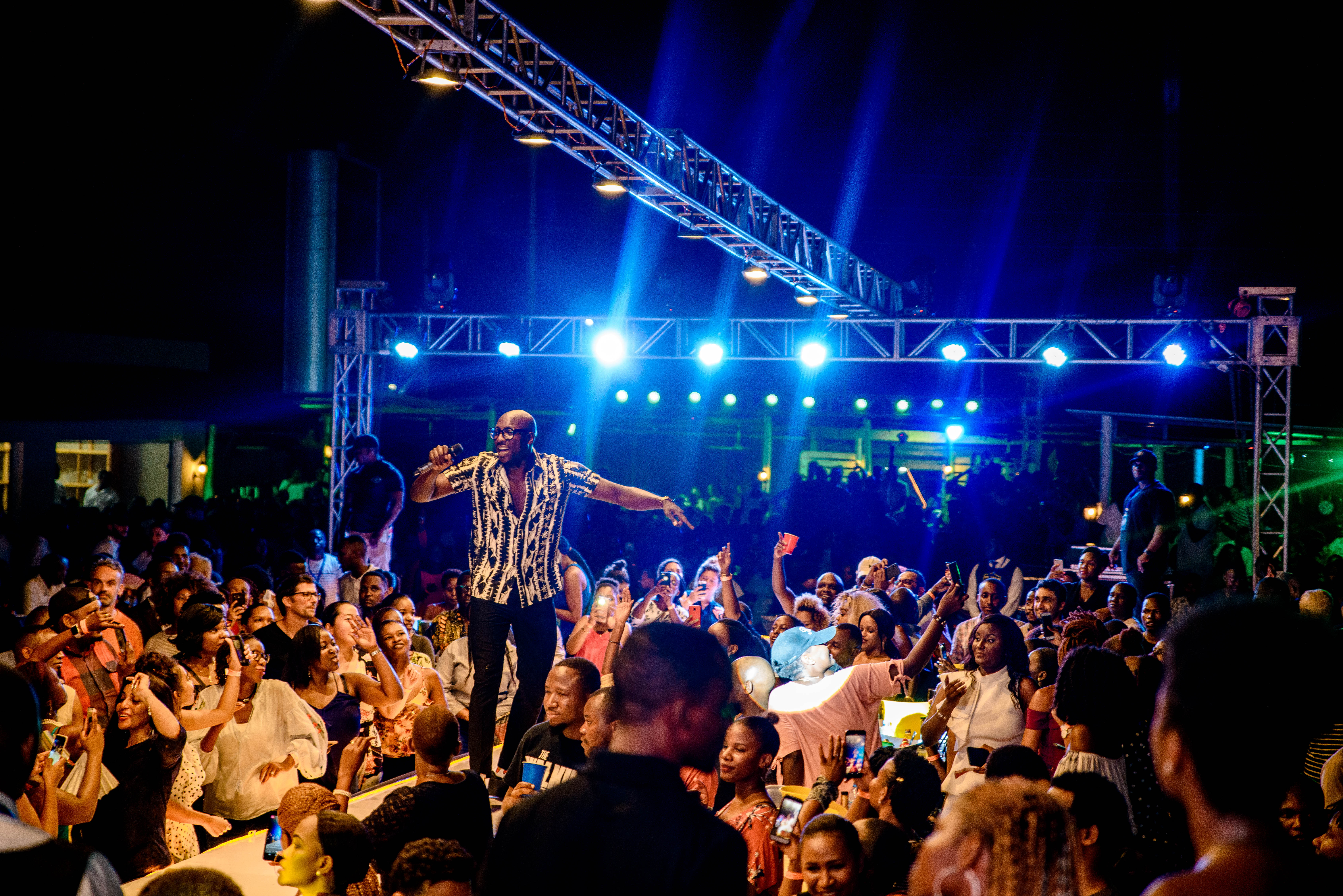 This is an image with the theme "Play" from: Tanzania